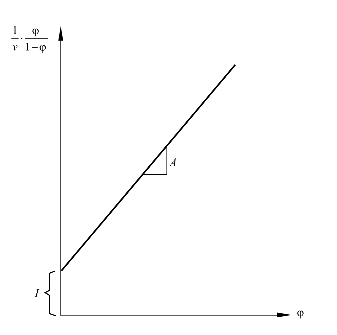 schematic BET plot